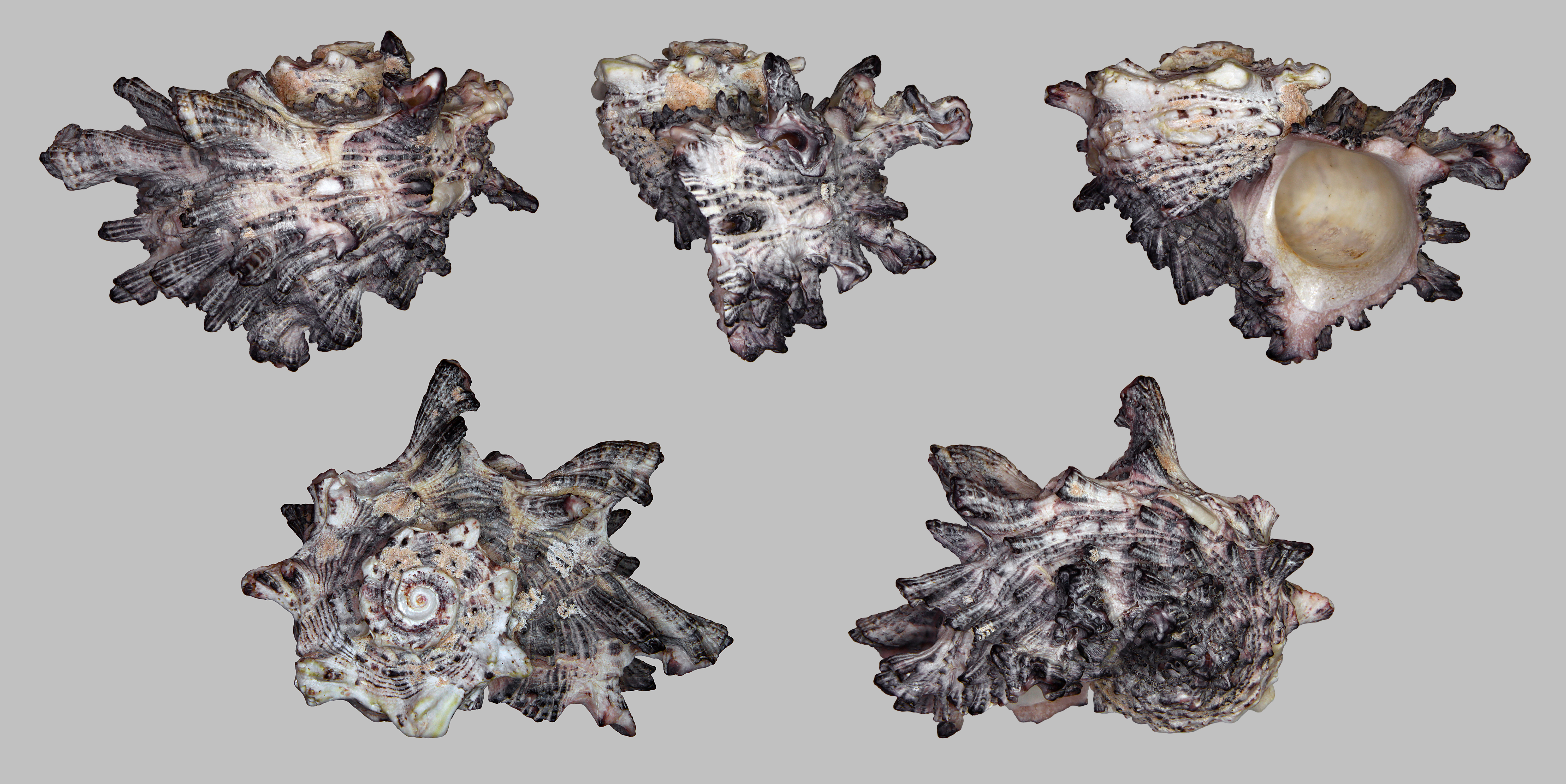 Common Delphinula; Diameter 6.5 cm; Southwest Coast of Koh-Phangan Island, Thailand; Shell of own collection, therefore not geocoded.